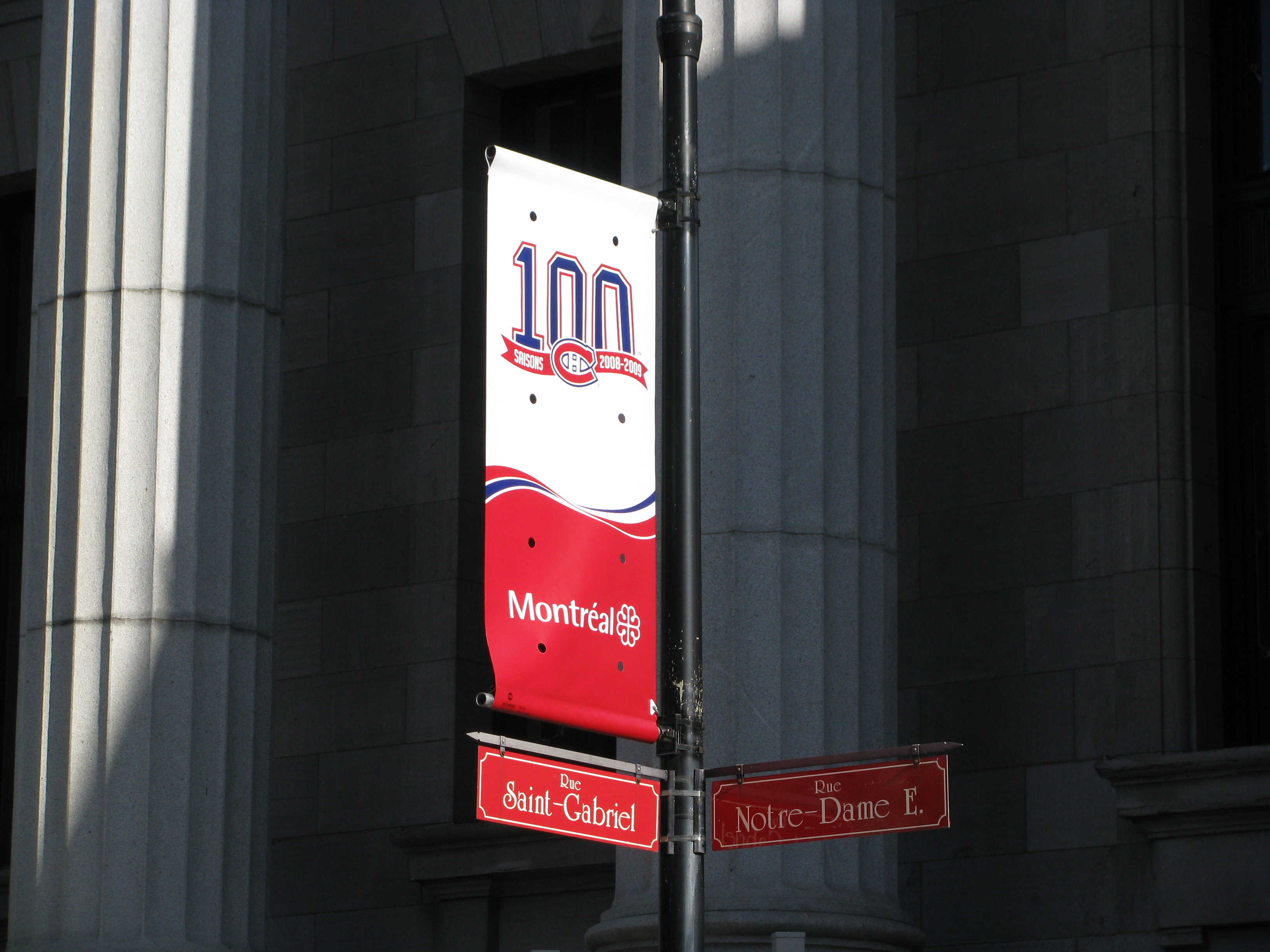 celebrating 100 years